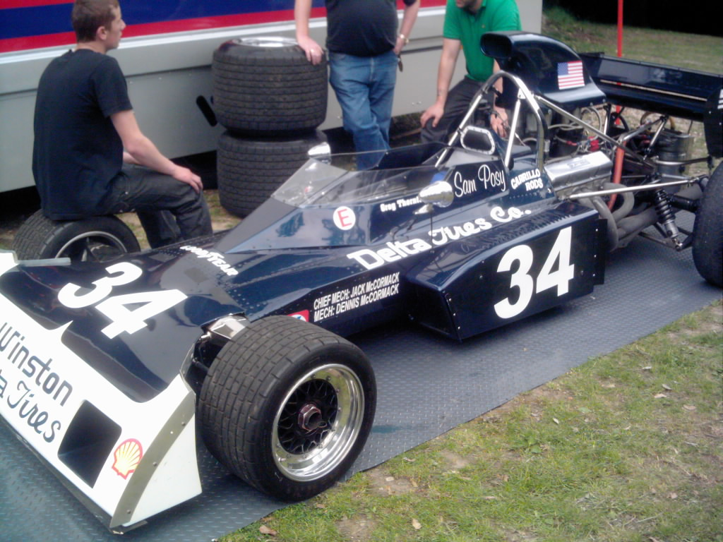 Surtees TS11 in F5000 form. Crystal Palace 2011